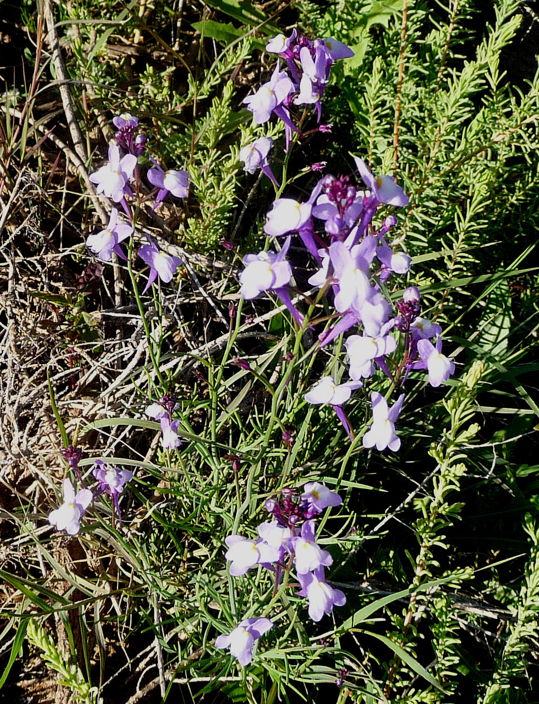 Overexposed so difficult to tell.